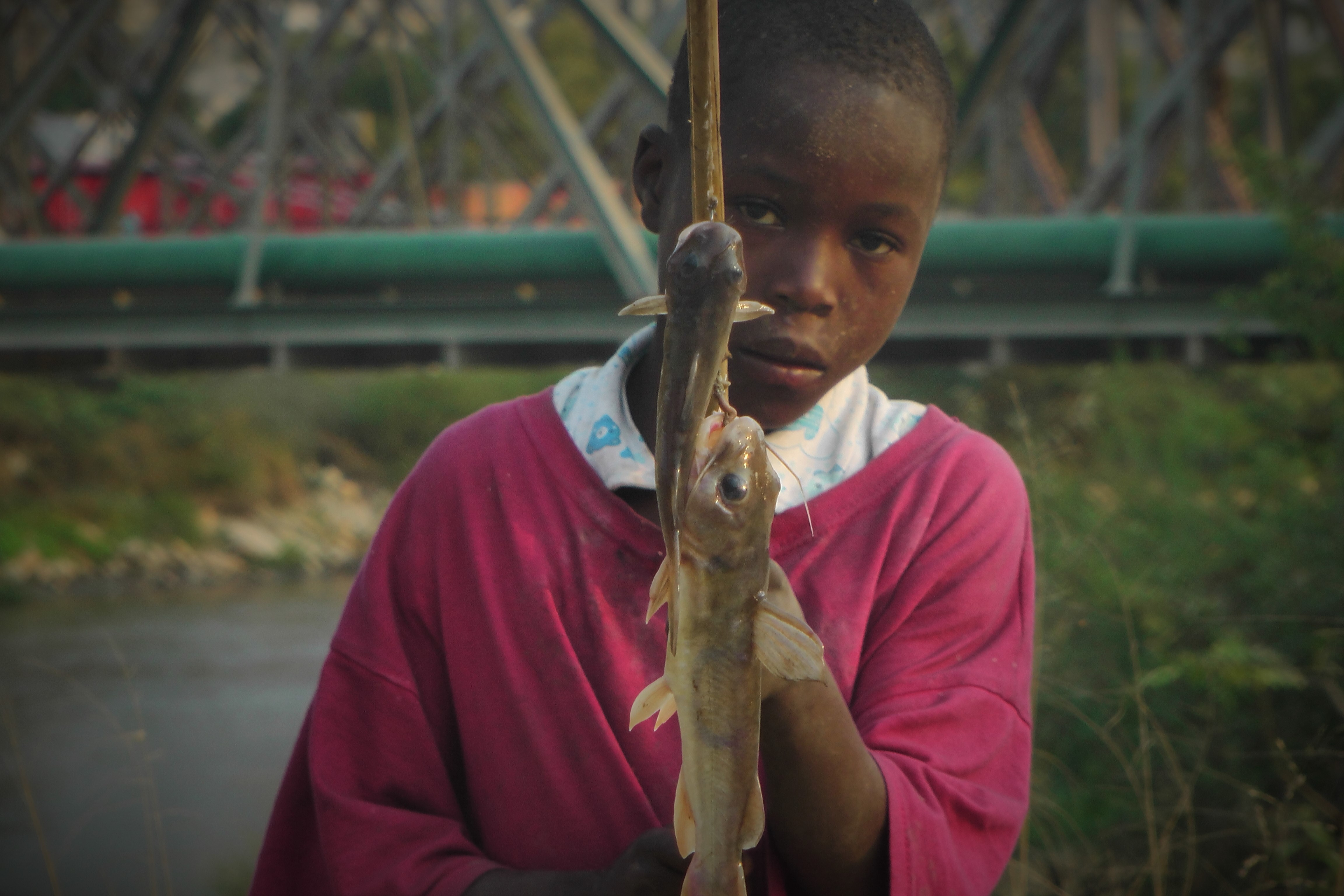 This is an image with the theme "Play" from: Angola